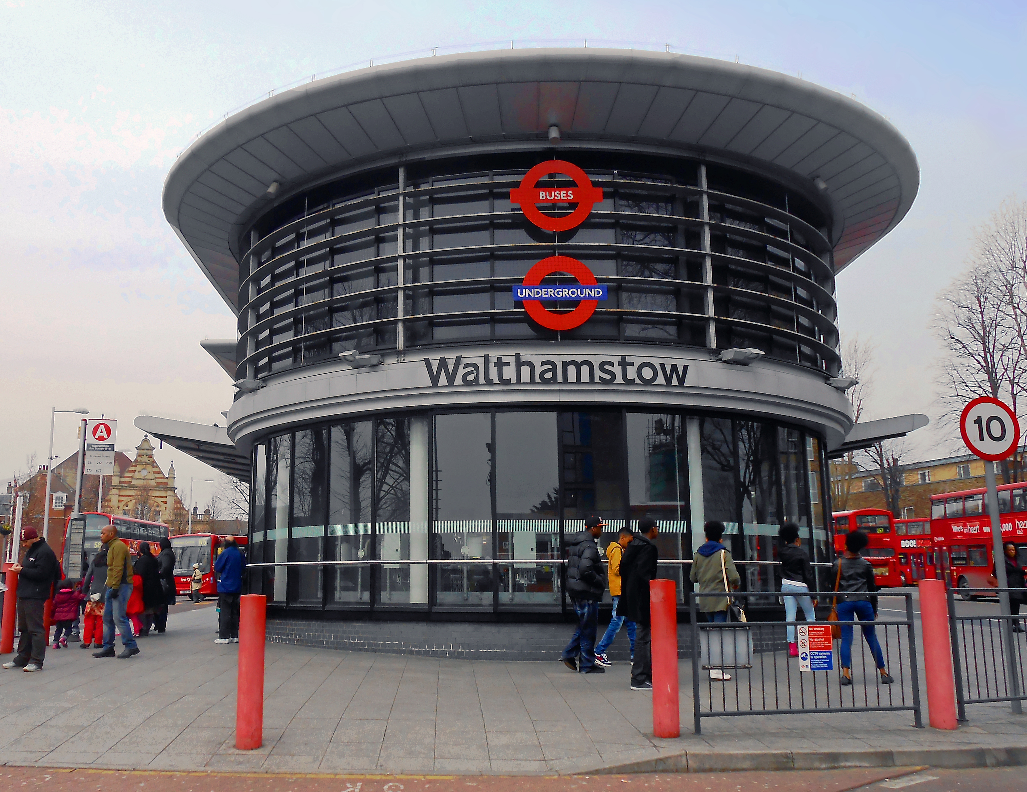 The northern terminus of the Victoria Line and a pretty distinctive looking building.